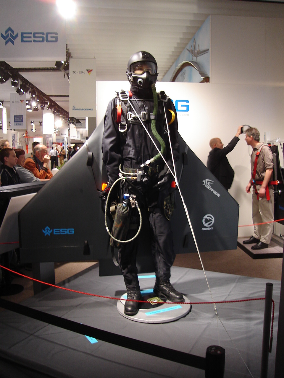 The Gryphon wingsuit by ESG at the Paris Air Show 2007, viewed from the front. A person is trying on a demonstration version in the background.